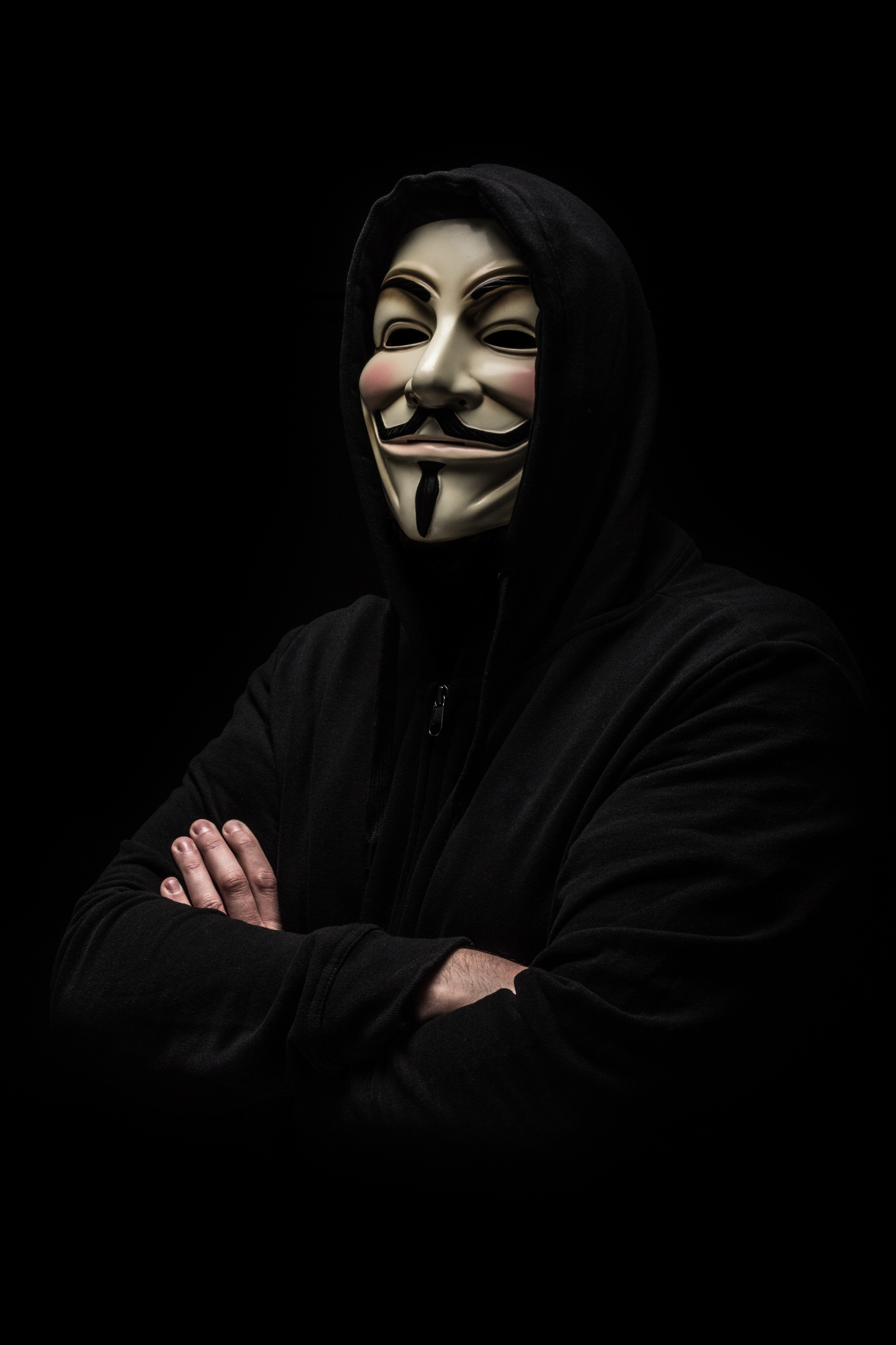 One piece of my "Aging fellas" Portraits series.